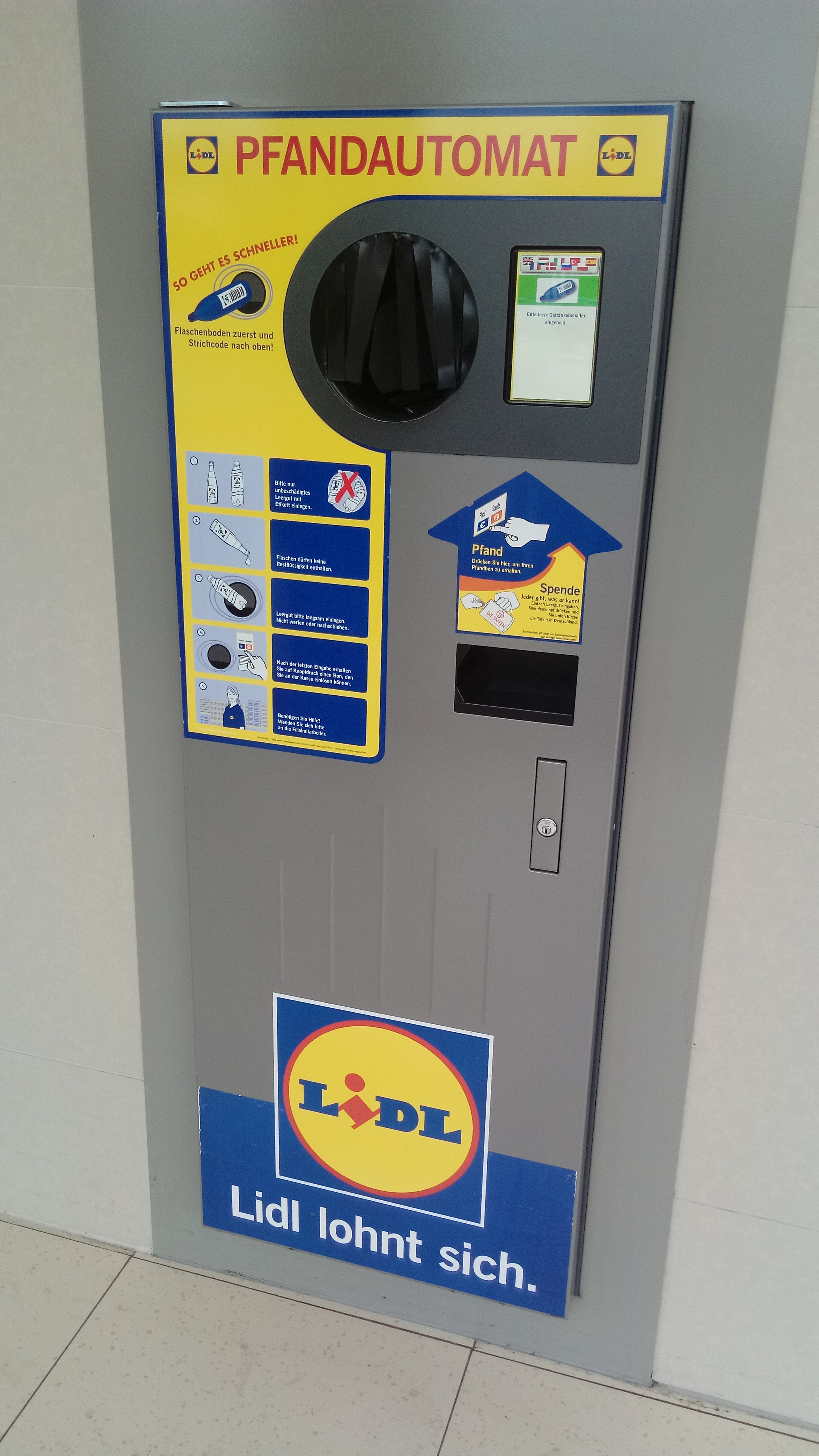 A bottle reverse vending machine inside of a small local Lidl-branded supermarket in the Low-Saxon city of Papenburg.